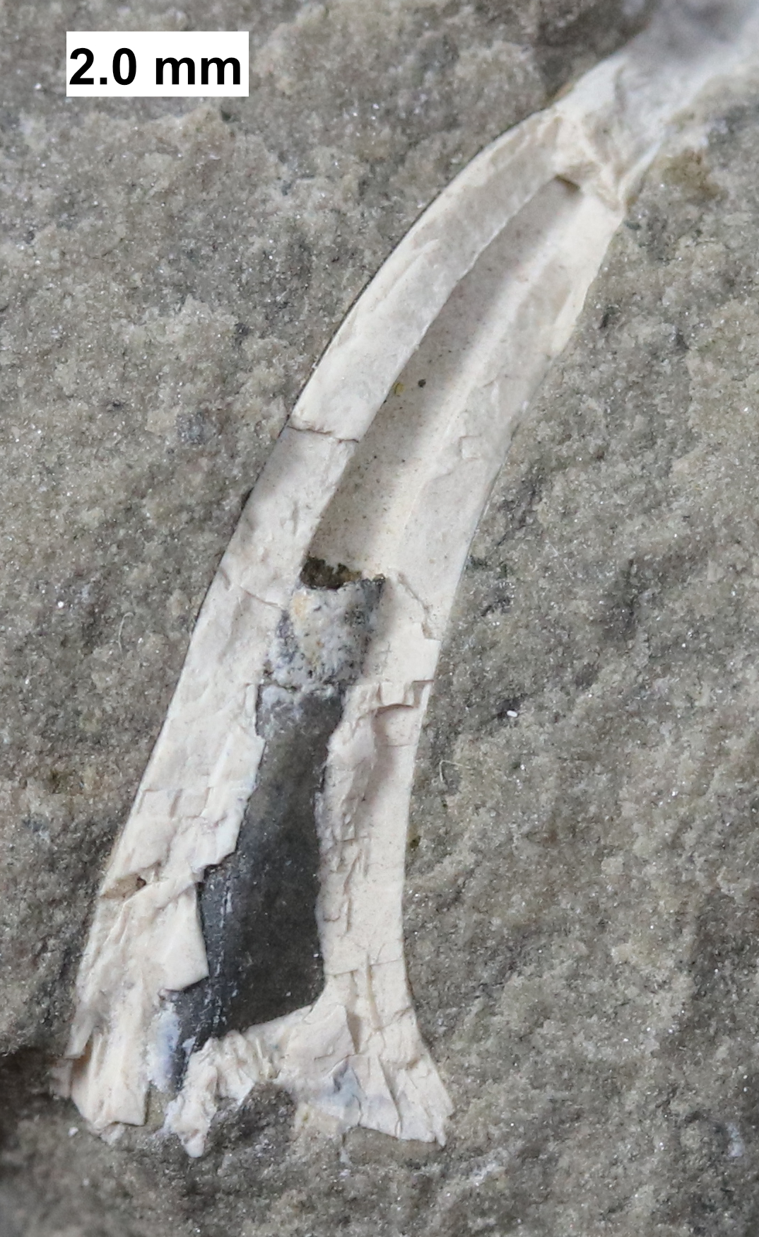 Onychodus tooth with carbonized pulp in its pulp cavity; Milwaukee Formation; Berthelet Member; Milwaukee County, Wisconsin; MPM 477; collected by C.E. Monroe; photograph originally published in K.C. Gass, J. Kluessendorf, D.G. Mikulic, and C.E. Brett, 2019. Fossils of the Milwaukee Formation: A Diverse Middle Devonian Biota from Wisconsin, USA. Siri Scientific Press, Manchester, UK.